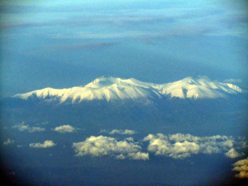 Aerial View of Mount Olympus